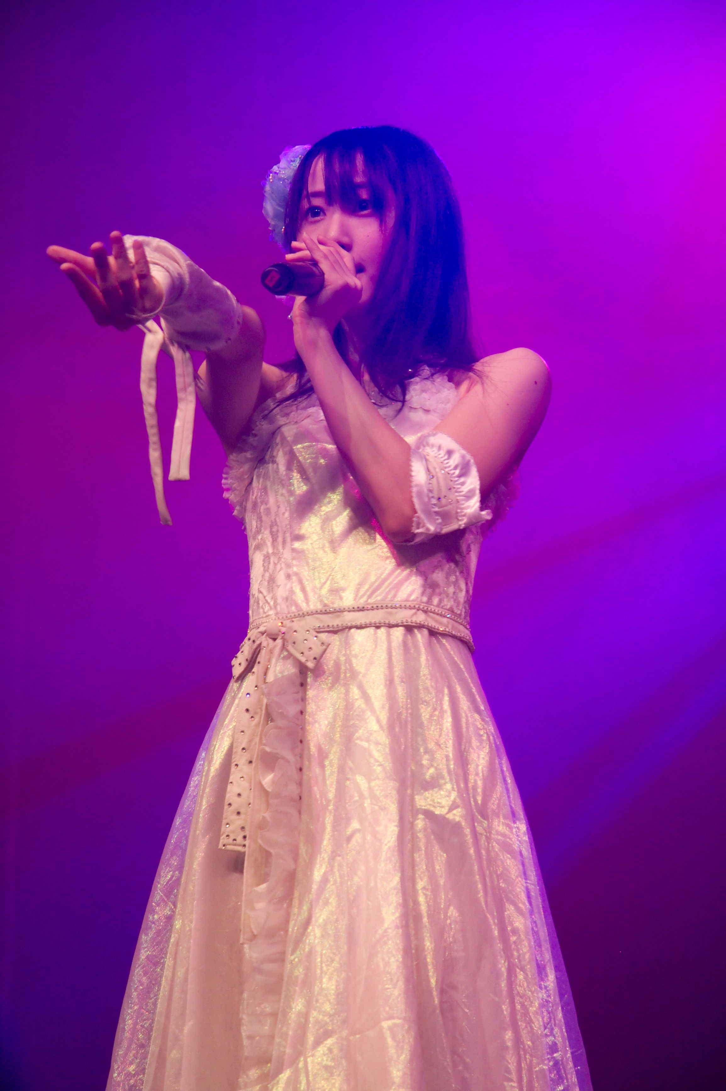 Rena Matsui in an AKB48 live performance at Japan Expo 2009 in Paris, France